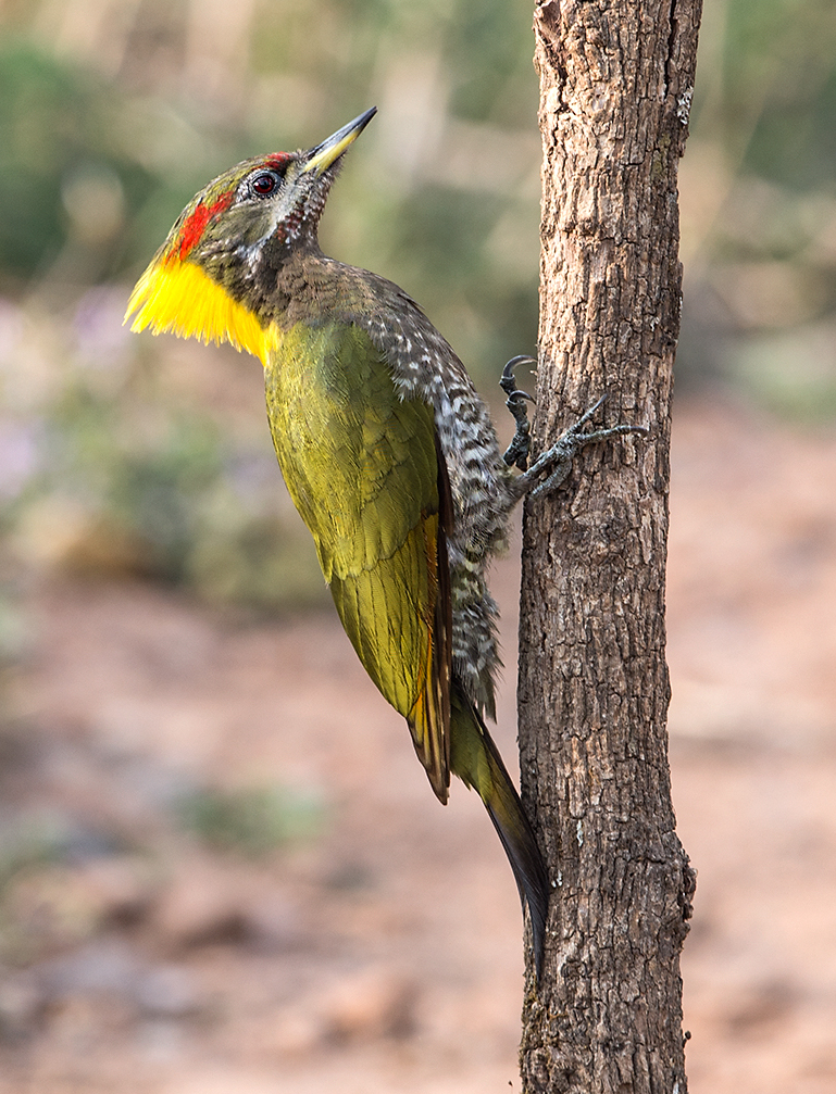 Picus chlorolophus